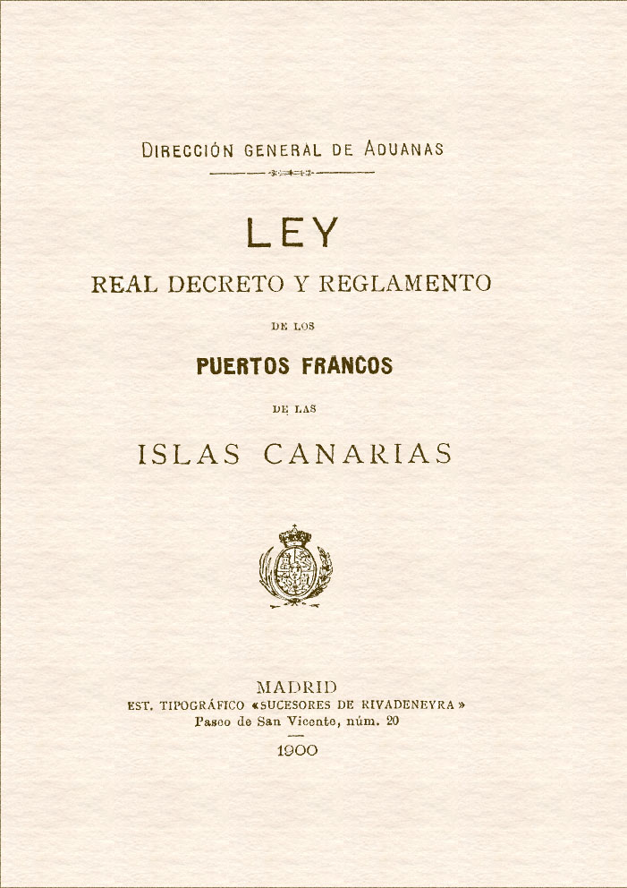 Cover of the Law, Royal Decree and Regulations of the free ports in the Canary Islands (1852).